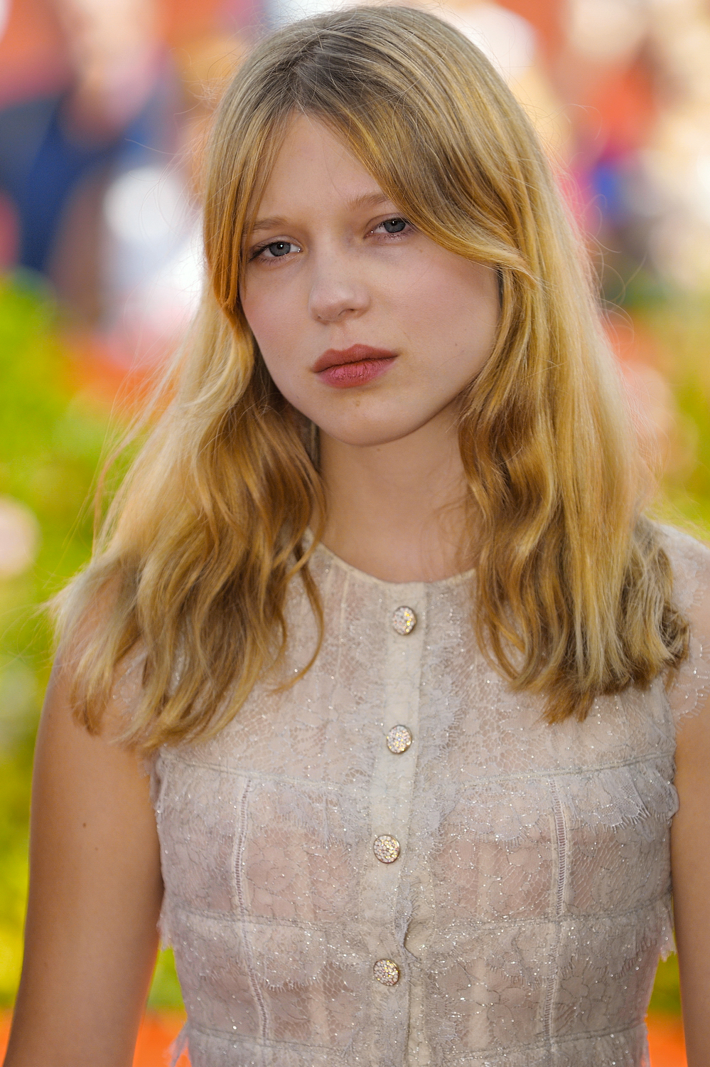 Léa Seydoux at the 66th Venice International Film Festival in 2009, promoting Lourdes.